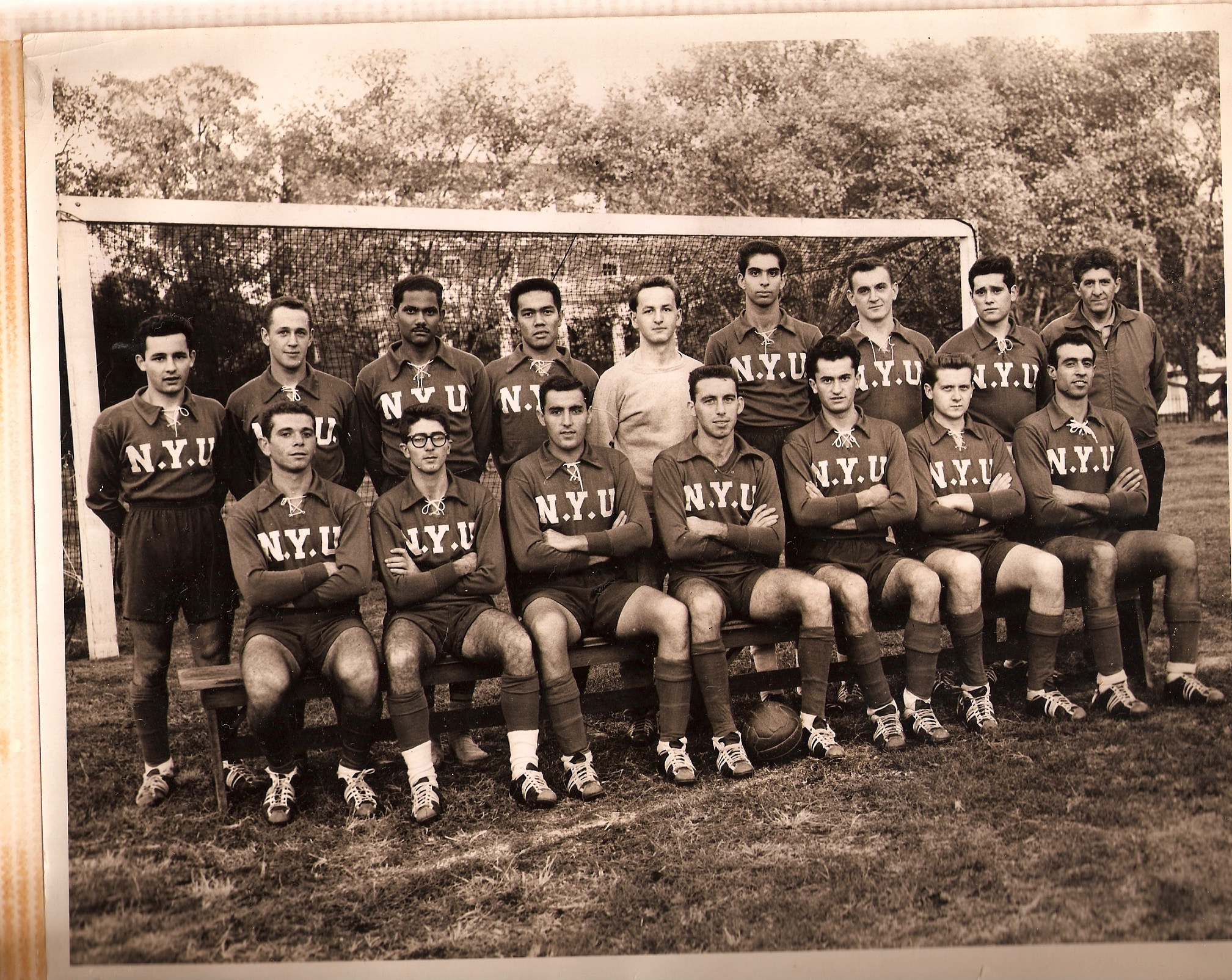 NYU Violets soccer team, 1957-58 (Zacharia Ofri seated, far right)